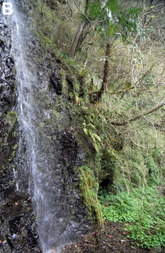 Photo of habitats of amphibious species Fukuia multistriata (beside the waterfall) and terrestrial species Blanfordia simplex (forest floor).